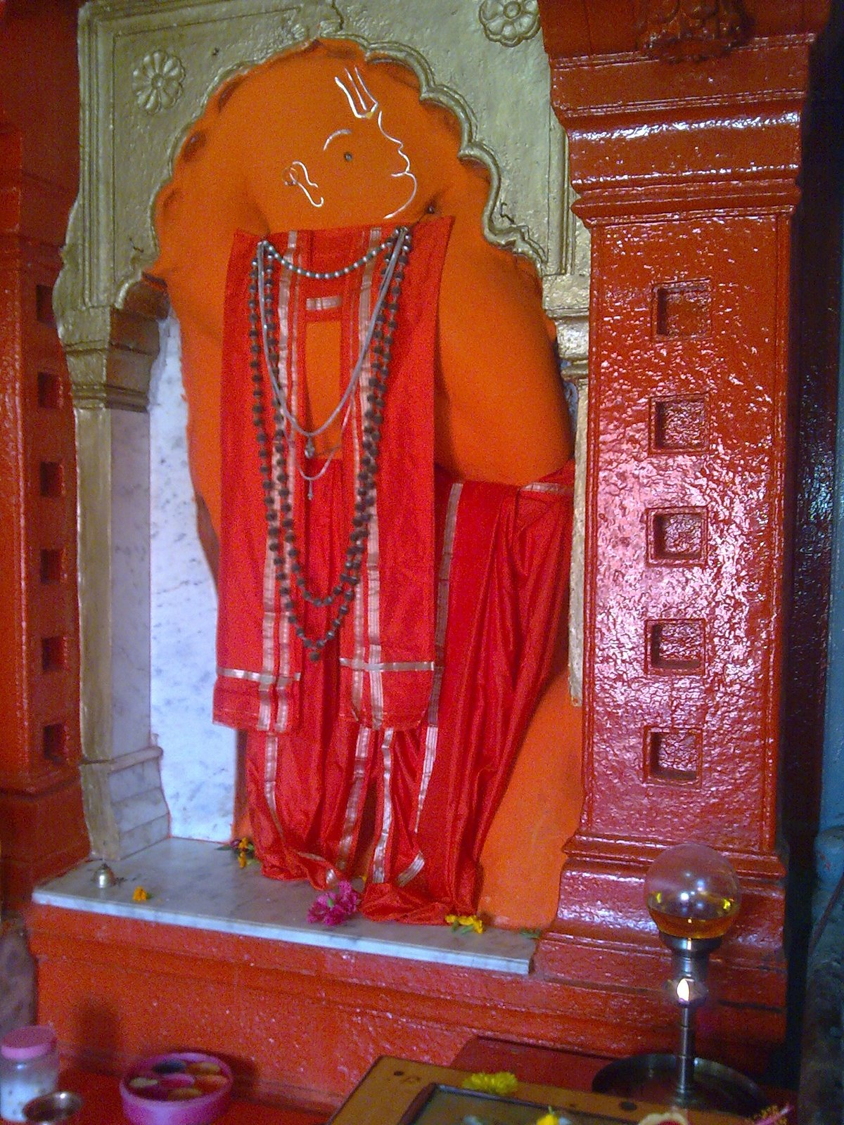 Takalicha Gomayacha Maruti(1)